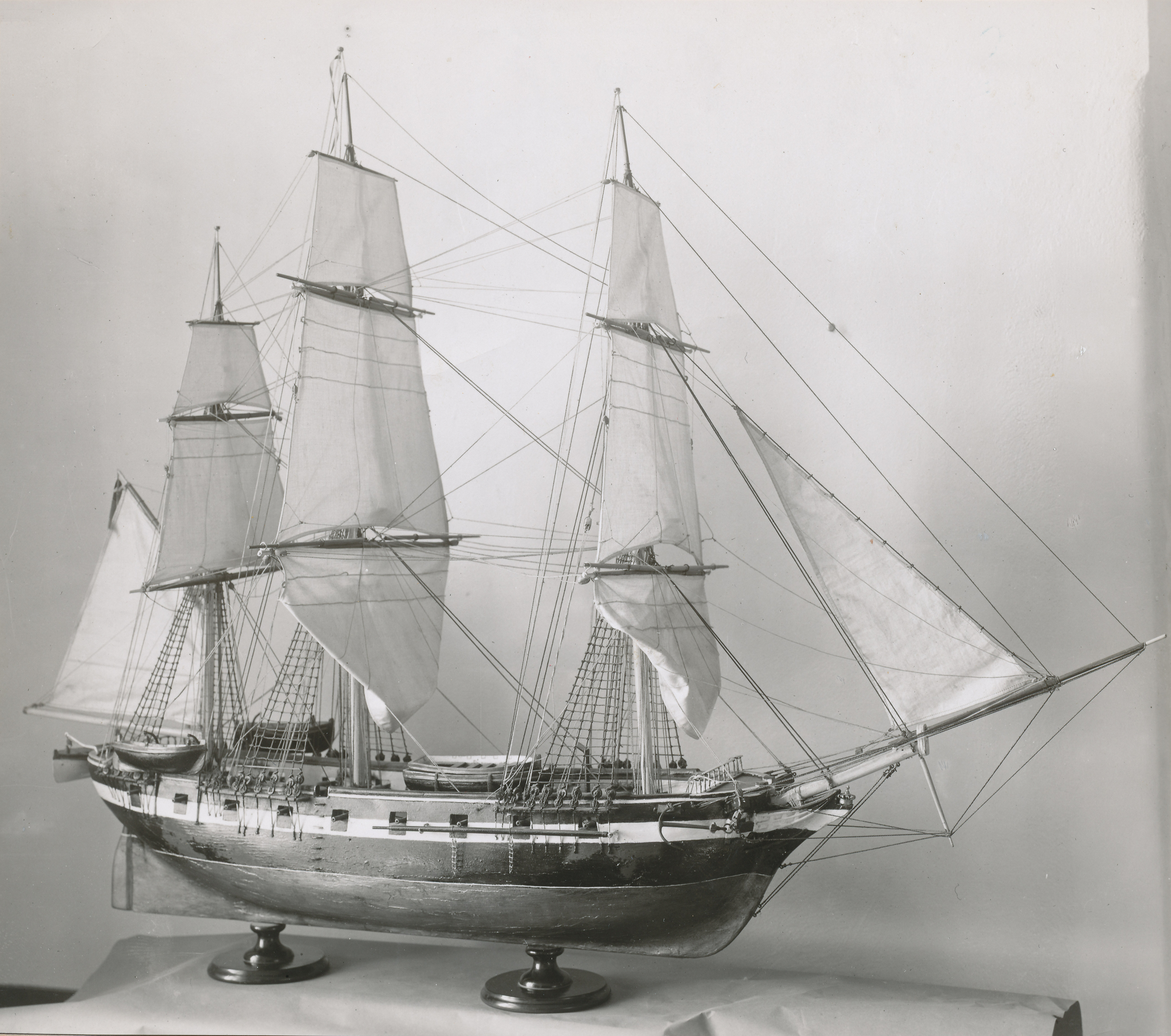 Model of HMS Carlskrona (1841)